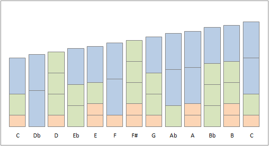 Graphical construction of 5-limit tuning by thirds, fifths and octaves. Brown = Third = 5/4 = 386.31 cents Green = Fifth = 3/2 = 701.96 cents Blue = Octave = 2/1 = 1200 cents Scale in centsCD♭-DE♭EFF♯+GA♭AB♭BC2288.2724002492.192603.922674.582786.312878.52990.233101.963172.623305.883376.543488.270111.73203.92315.65386.31498.04590.23701.96813.69884.351017.611088.271200